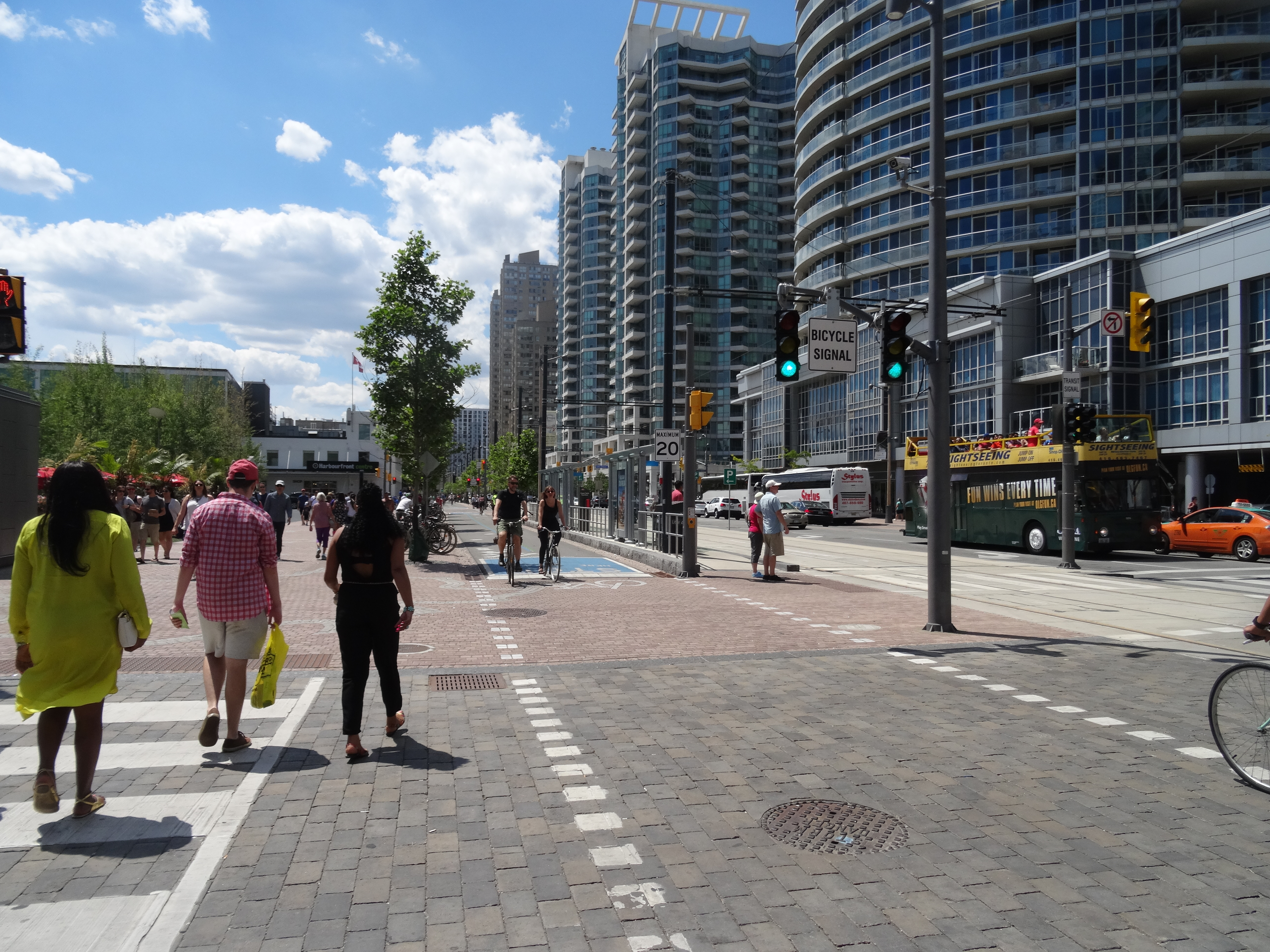 Exploring Queen's Quay, 2016 07 03 (1).JPG